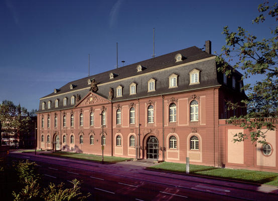 New Armoury Mainz; now State Chancellery of Rhineland-Palatinate